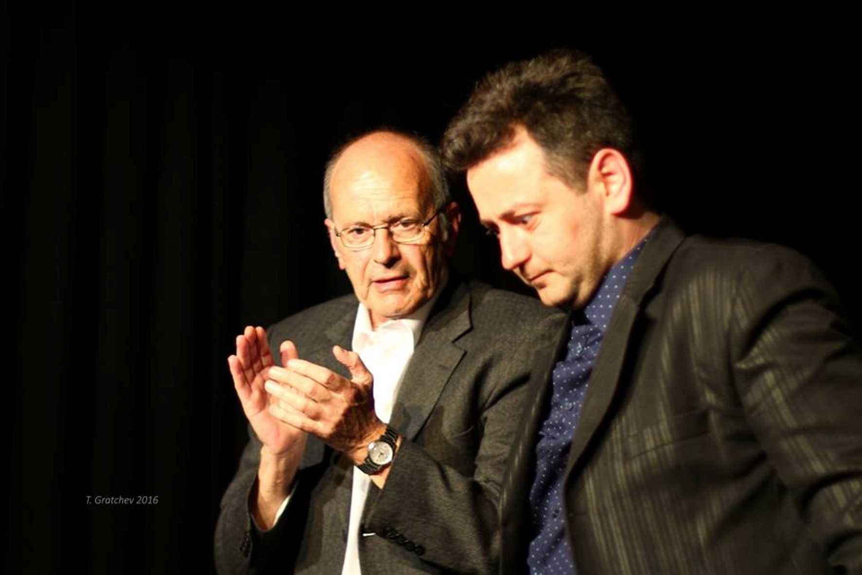 Topchi & Servene